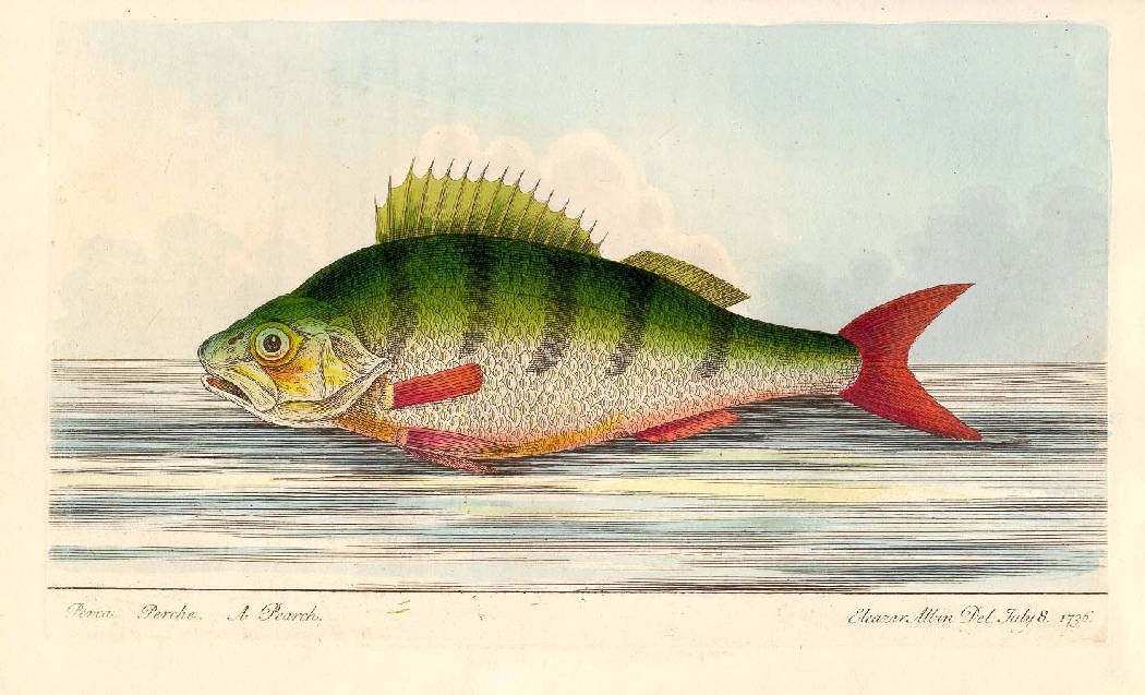 Perch